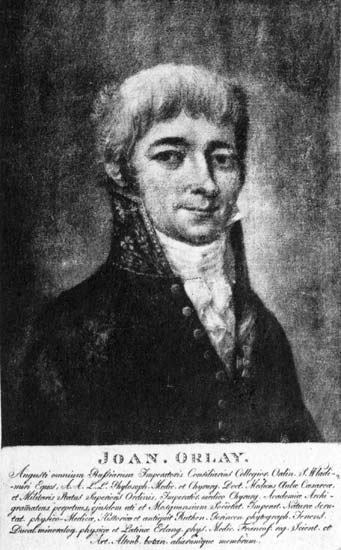 Orlay de Carva